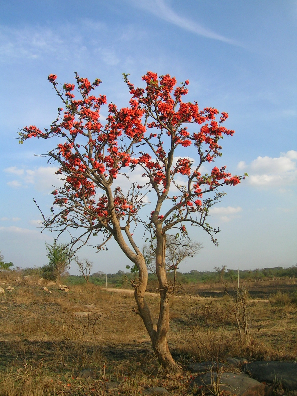 Erythrina sp. tree in flower, Hessarghatta, Bangalore